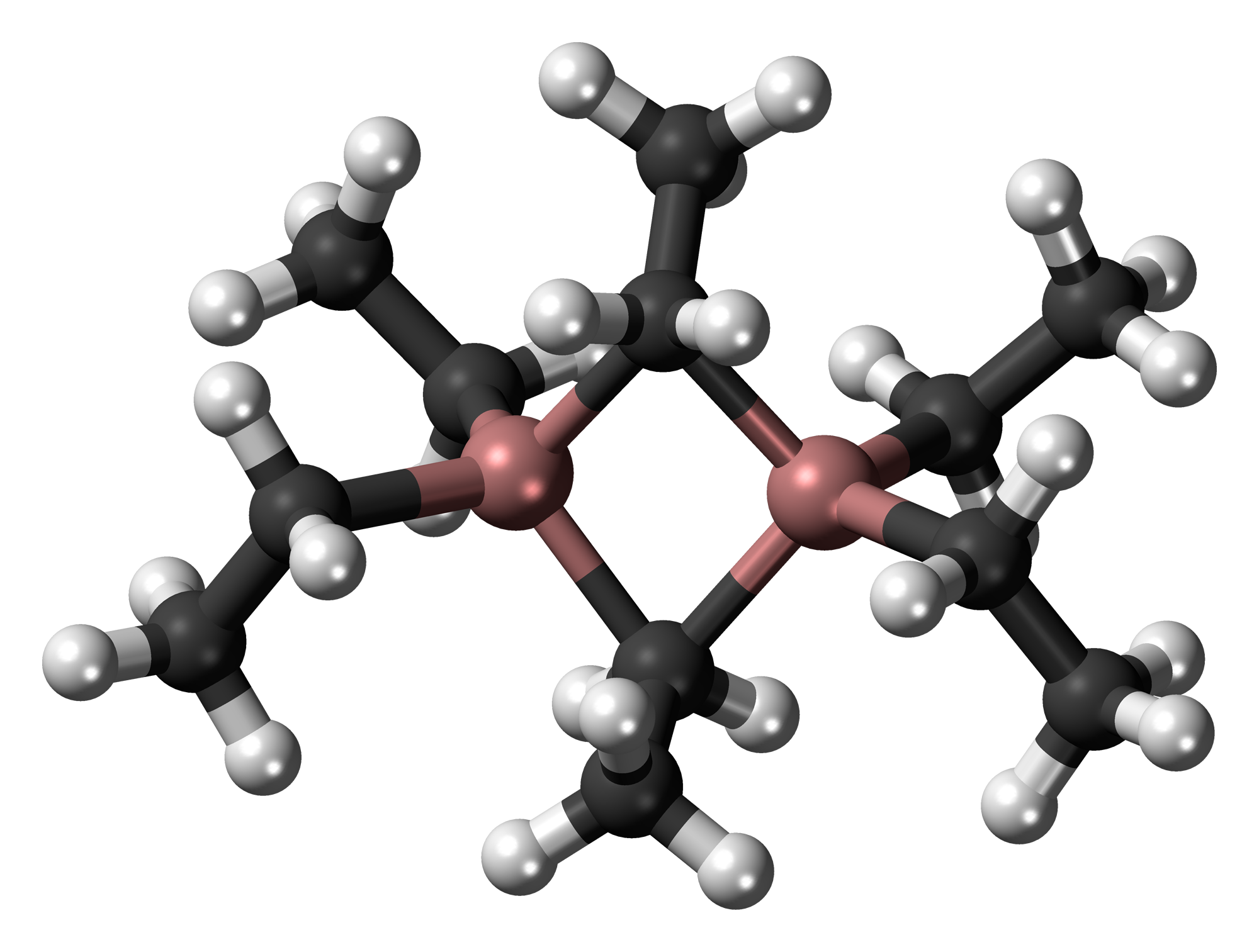 Ball-and-stick model of the triethylaluminium molecule, an organic aluminium compound. This image shows the dimer form. Colour code: Carbon, C: black Hydrogen, H: white Aluminium, Al: pink-brown